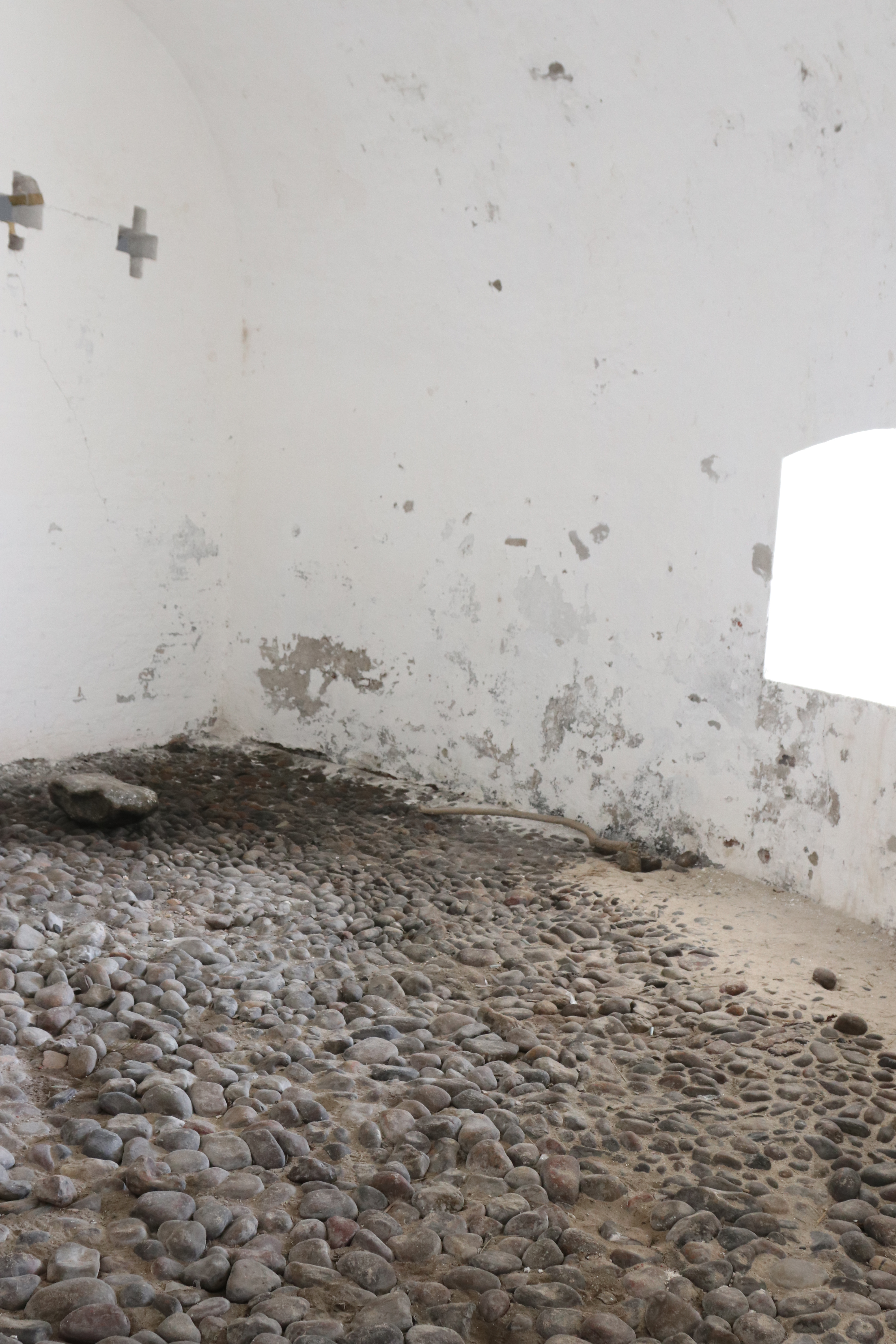 Casemate built by the British occupation forces on Anholt during the Napoleonic Wars.